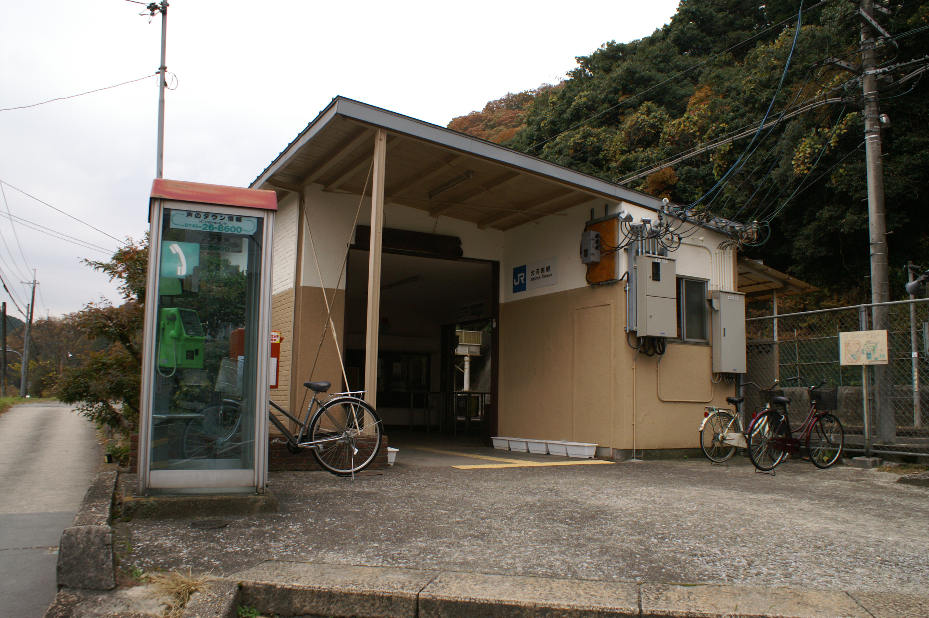 West Japan Railway Company Kansai Main Line Ōkawara Station